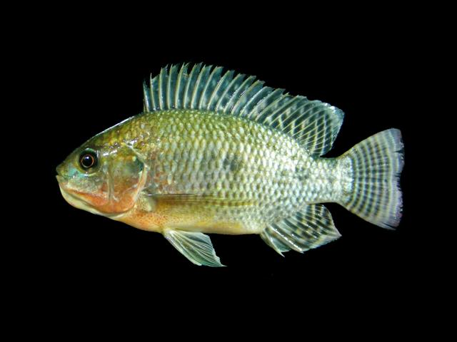 Oreochromis niloticus, Ranong, southern Thailand